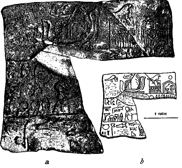 An illustration from the Encyclopaedia Biblica, a 1903 publication which is now in the public domain. Fig. 10 for article "Egypt". Hor-Aha (Image of the "Tablet of Menes", and line drawing copy. An ivory plate found by De Morgan at Nakadeh. It depicts and describes the funereal outfit of the deceased king)